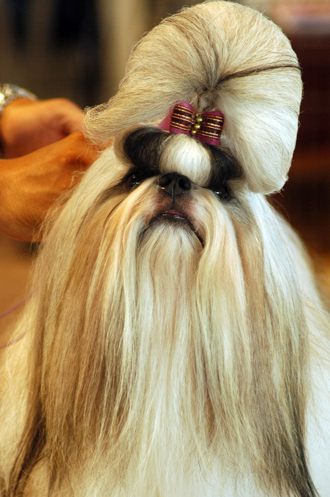 A Shih Tzu fully groomed for a dog show.